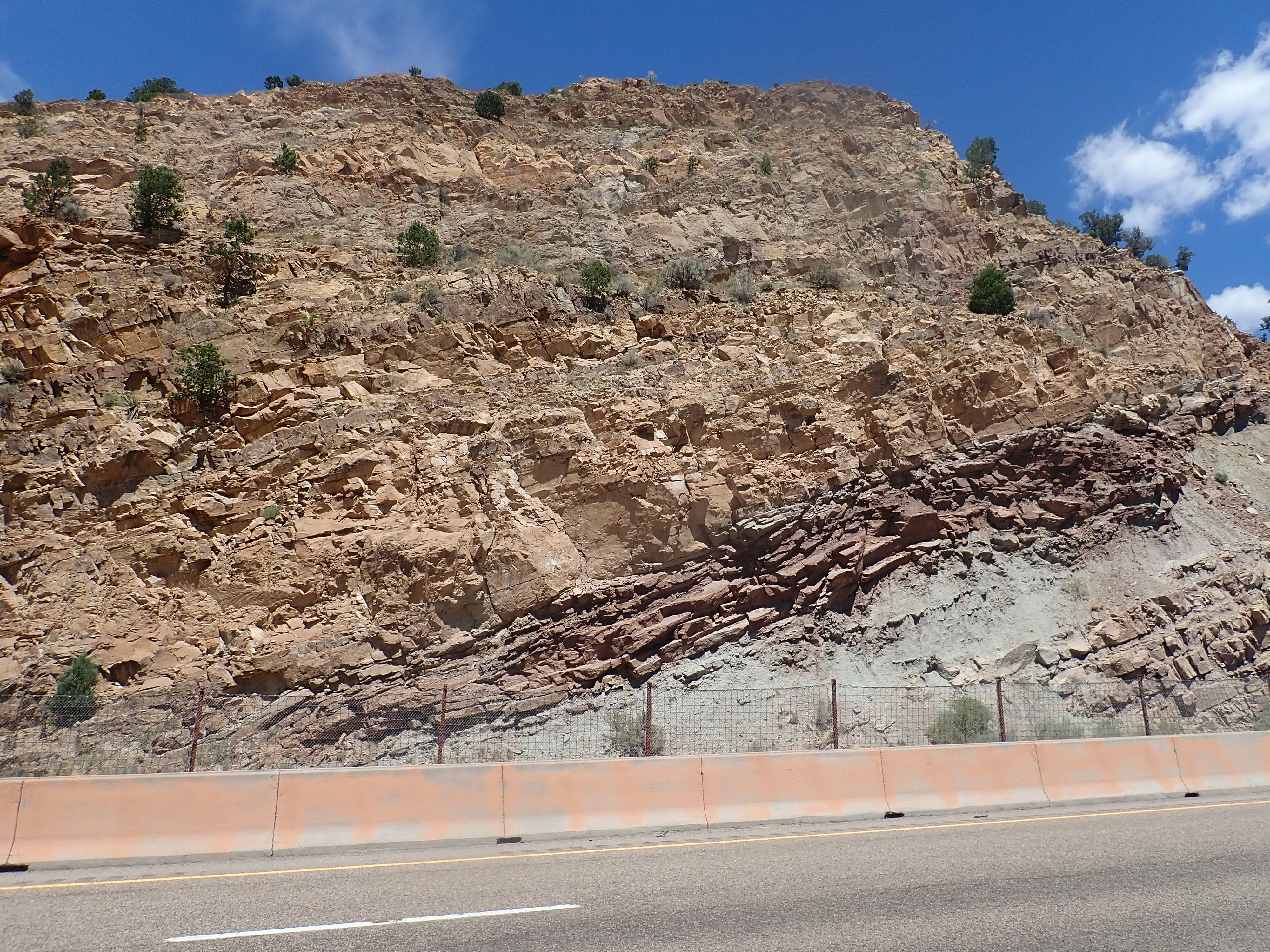 This image shows a road cut in the Santa Rosa Formation, a Triassic formation, along I-25 in Glorieta Pass east of Santa Fe, New Mexico. The red beds at lower right are Artesia Formation, a Permian formation previously identified as Bernal Formation in this area.